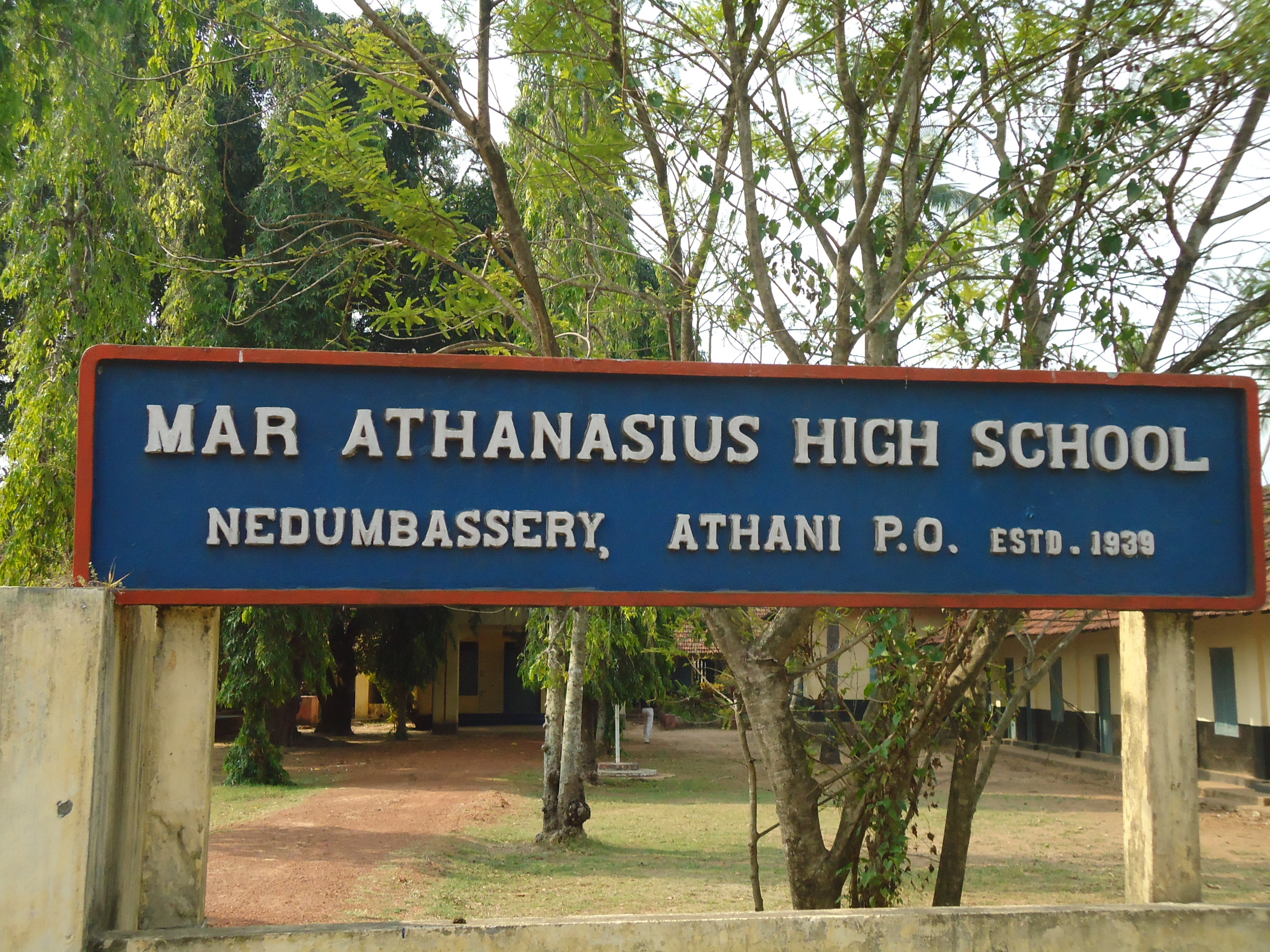 Mar Athanasius High School Athani Board